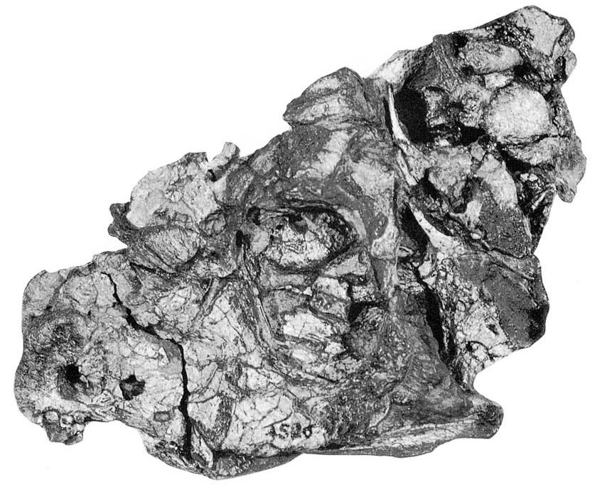 crop of file in file name